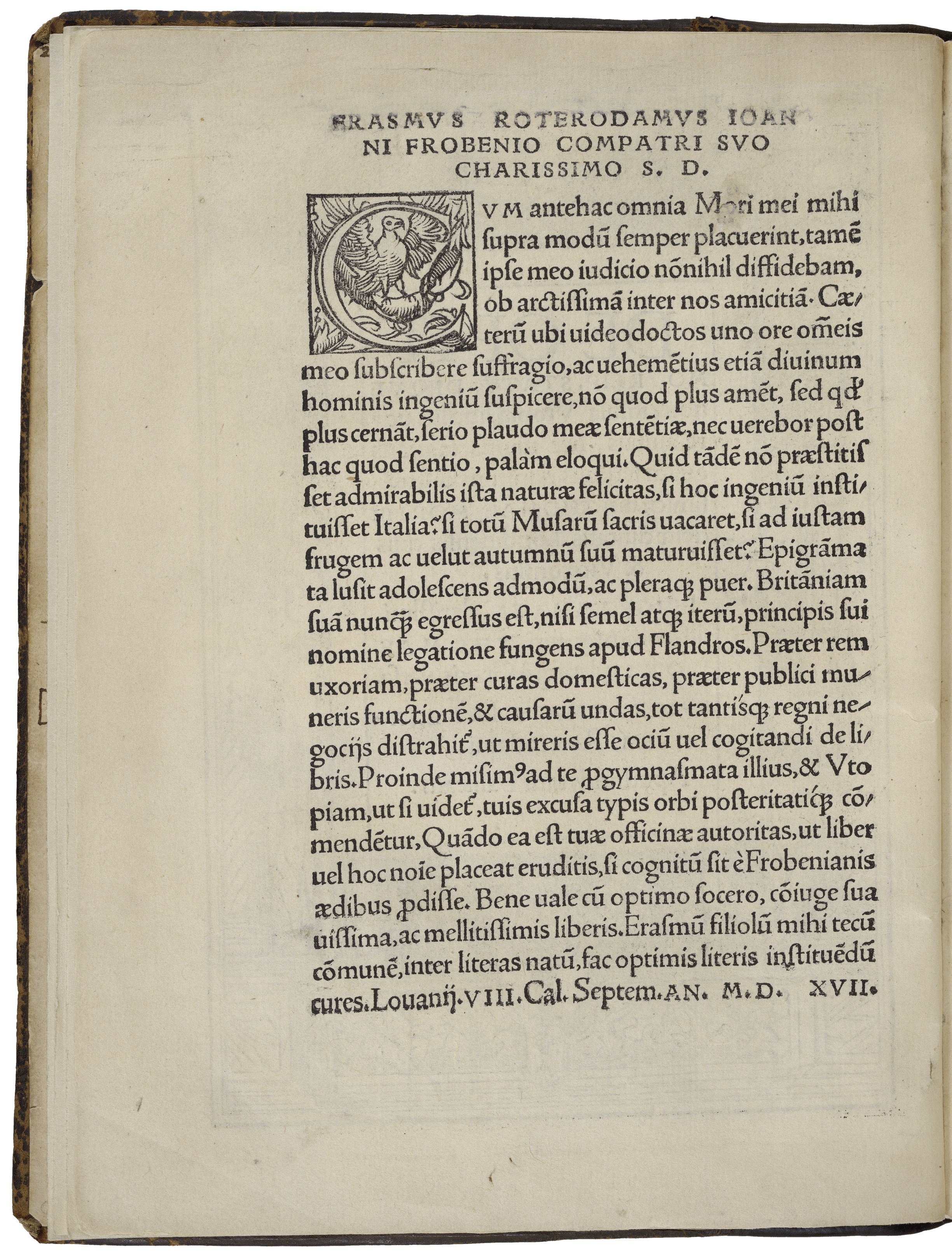 This is the letter written by Erasmus and addressed to Johan Froben, in Thomas More's Utopia (november 1518 edition)